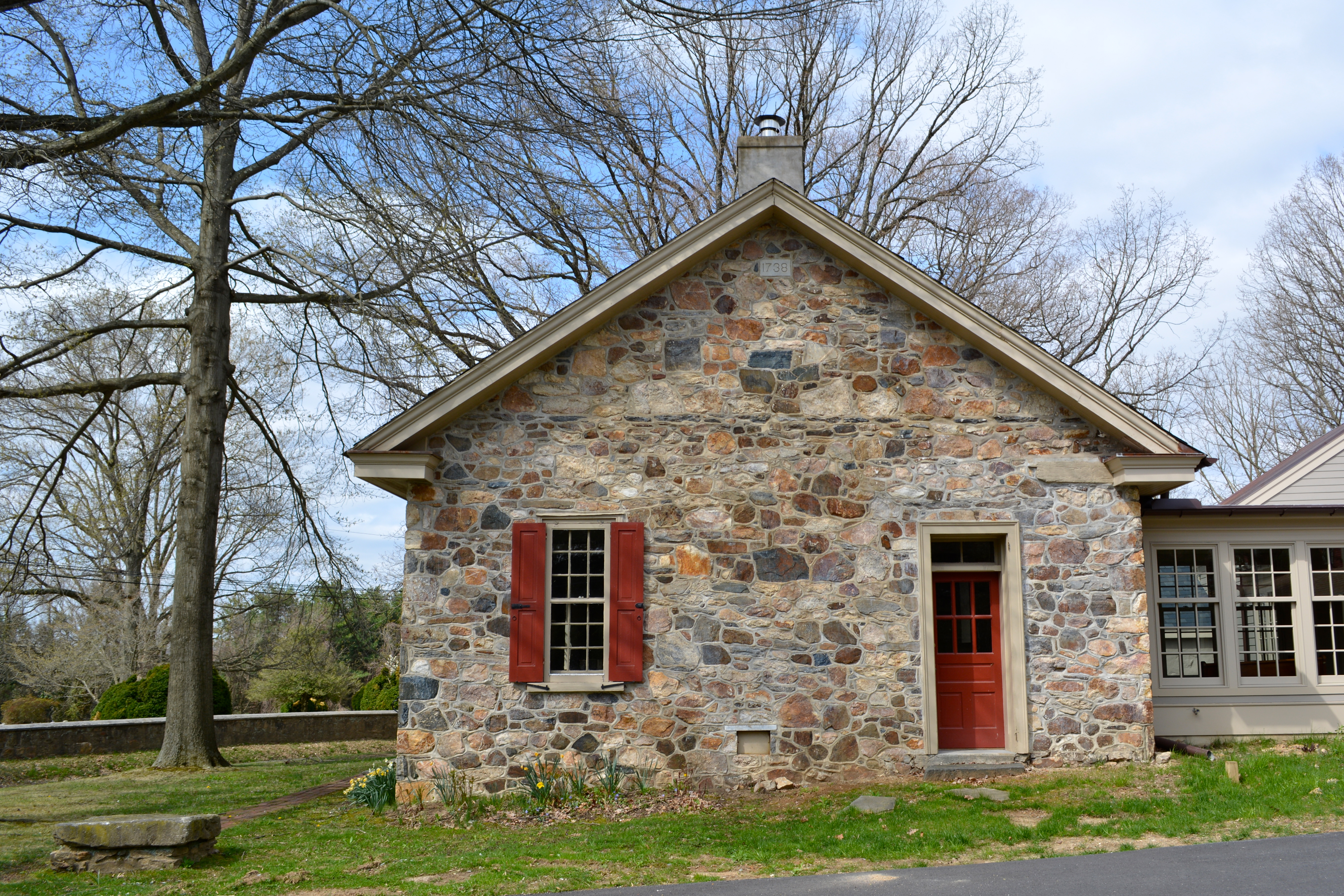 Hockessin Friends Meetinghouse listed on the NRHP on March 20, 1973. At Roads 254 and 275 at Meetinghouse Rd., east of Hockessin, DE